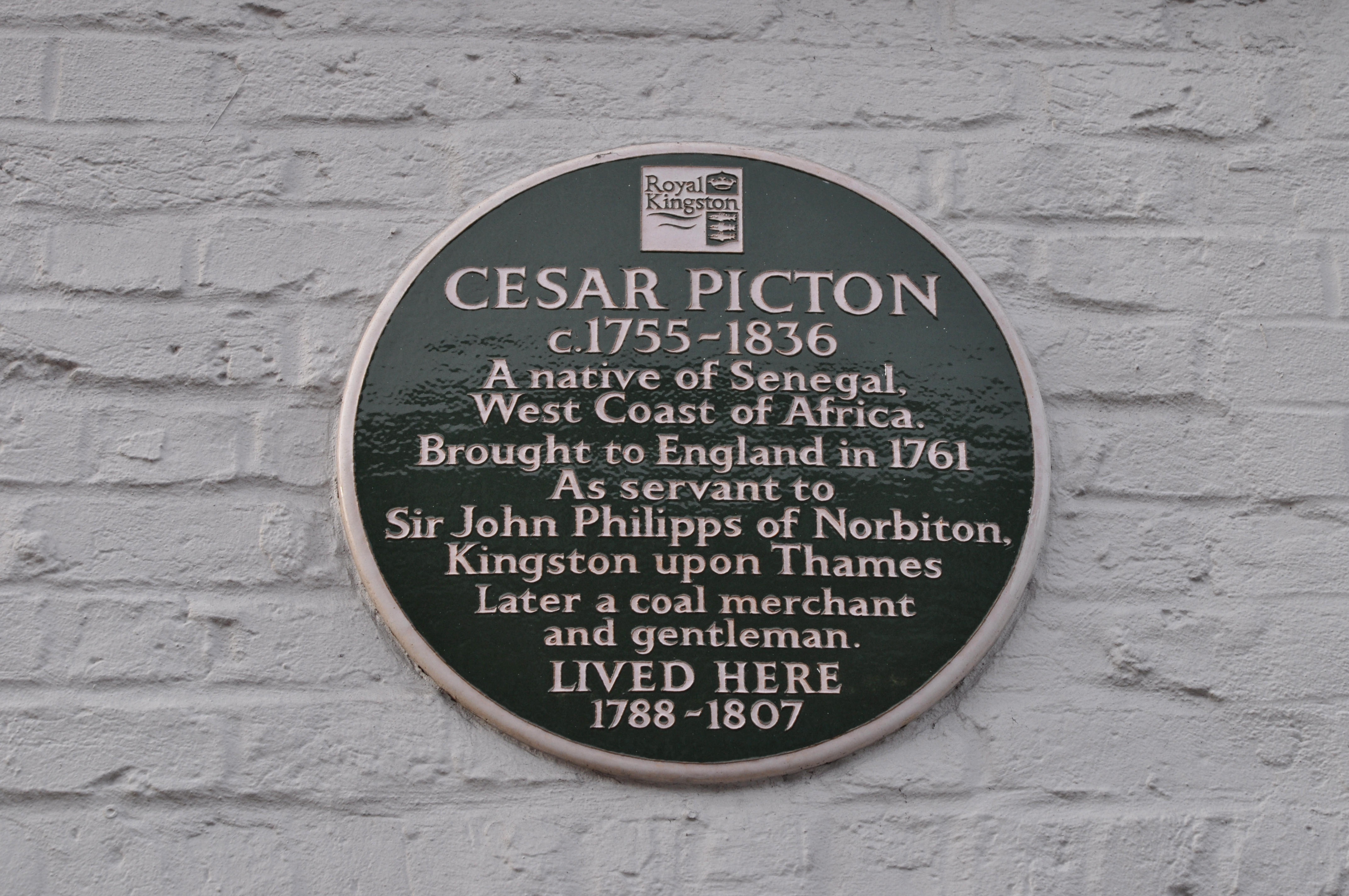 Picton House Wikidata has entry Q17552716 with data related to this item.